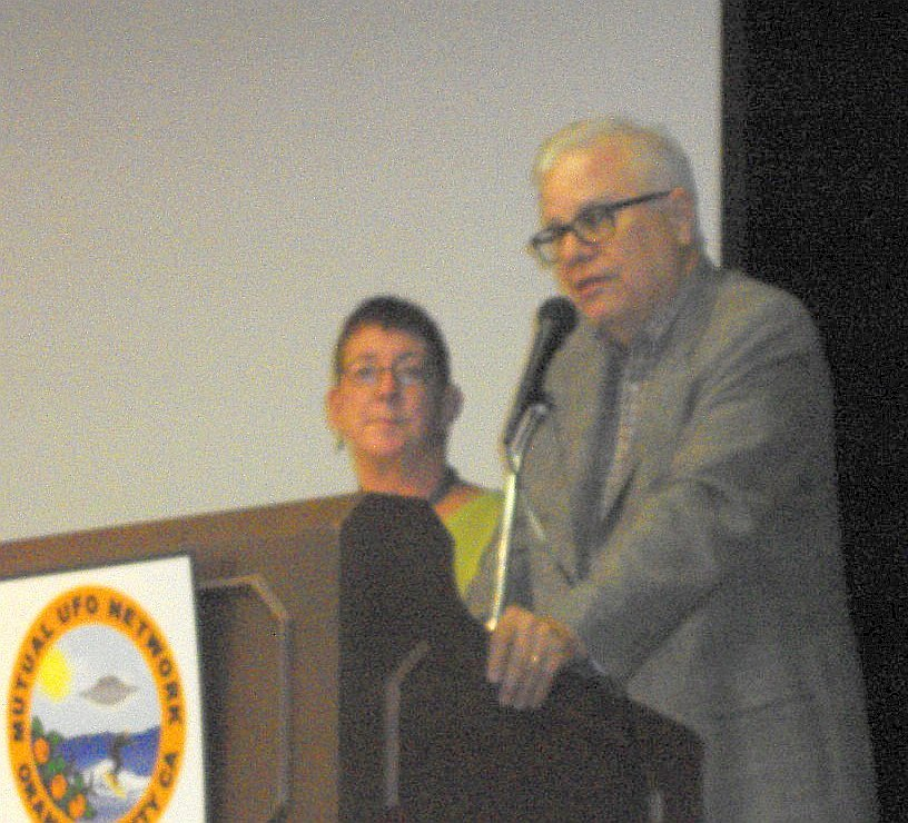 Author Whitley Strieber and Anne Strieber lecturing to Mutual UFO Network (MUFON).